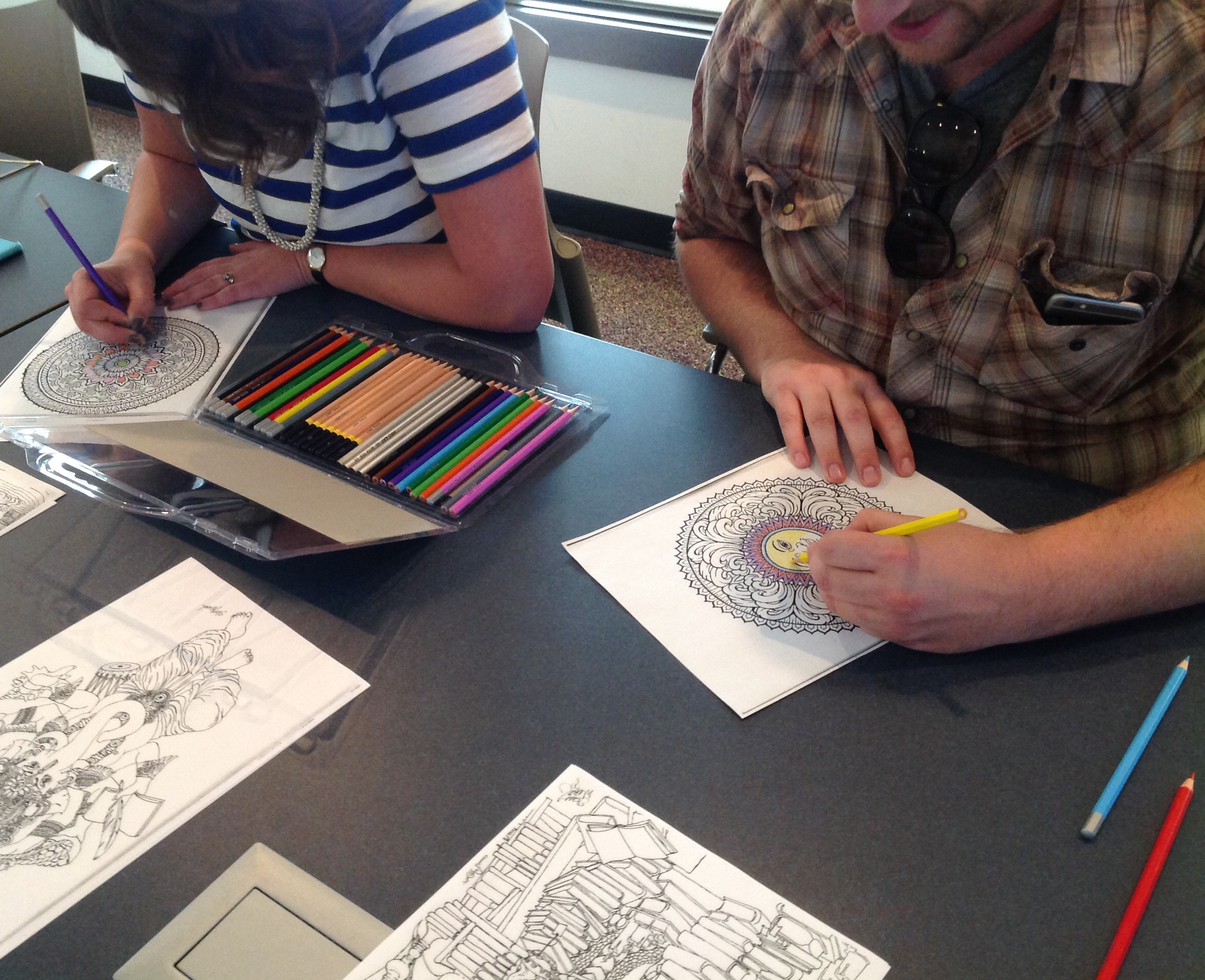 Adults coloring at the Southeast Steuben Library